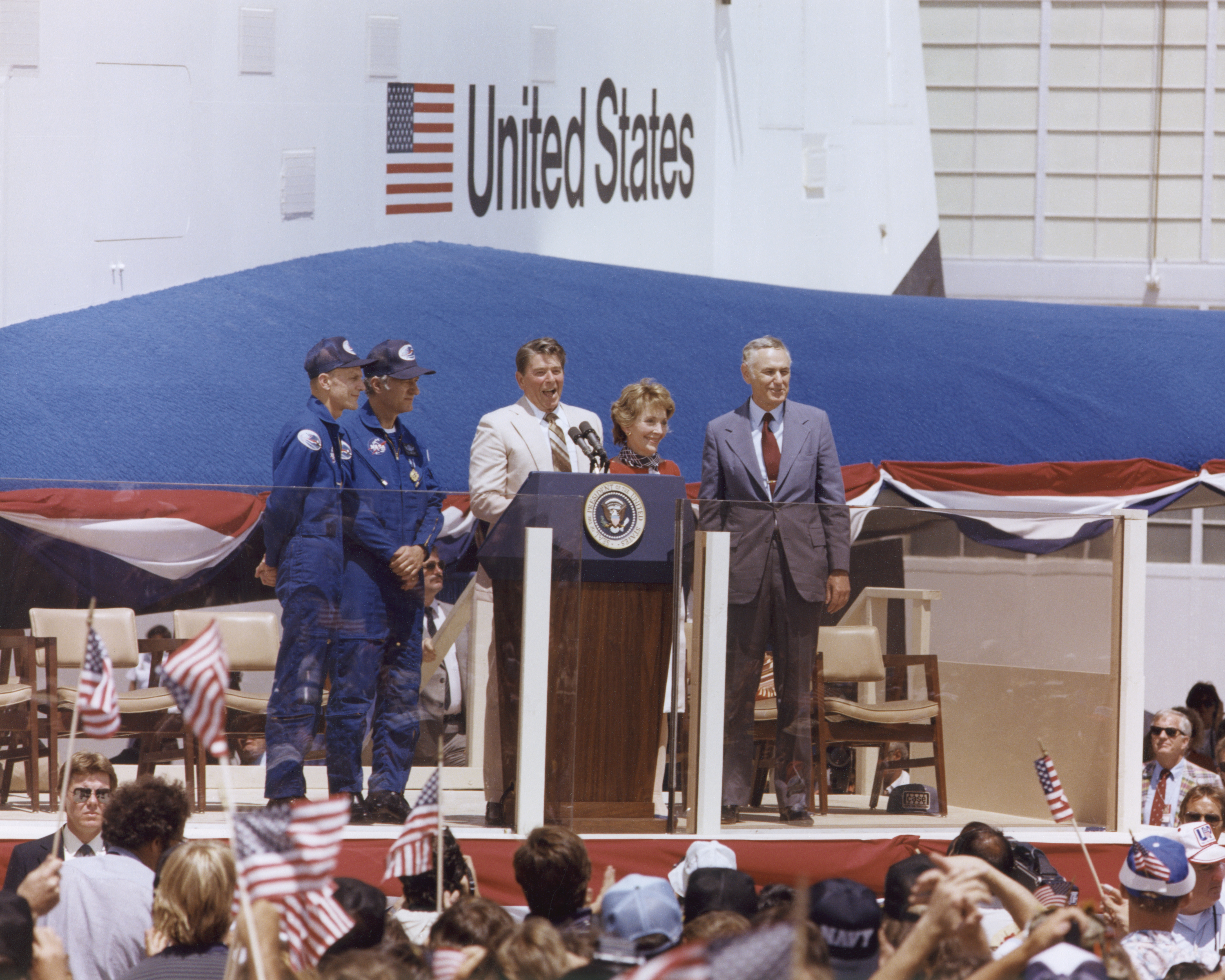 President Ronald Reagan speaks to a crowd of more than 45,000 people at NASA's Dryden Flight Research Center following the landing of STS-4 on July 4, 1982. To the right of the President are Mrs. Nancy Reagan and NASA Administrator James M. Beggs. To the left are STS-4 Columbia astronauts Thomas K. Mattingly and Henry W. Hartsfield, Jr. Prototype Space Shuttle Enterprise is in the background.